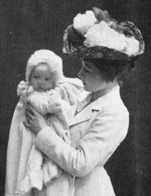 Photo of Harriet Bosse with her and August Strindberg's little daughter Anne-Marie.